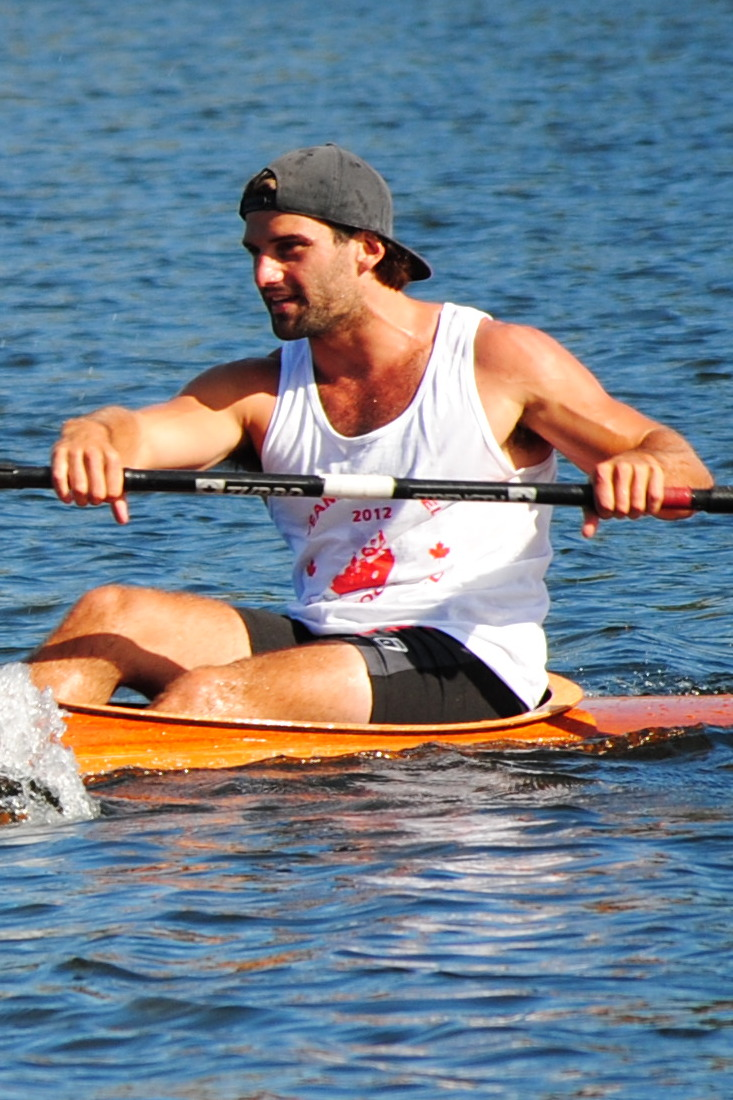 Hugues Fournel of Quebec at the national kayak trials in 2012.